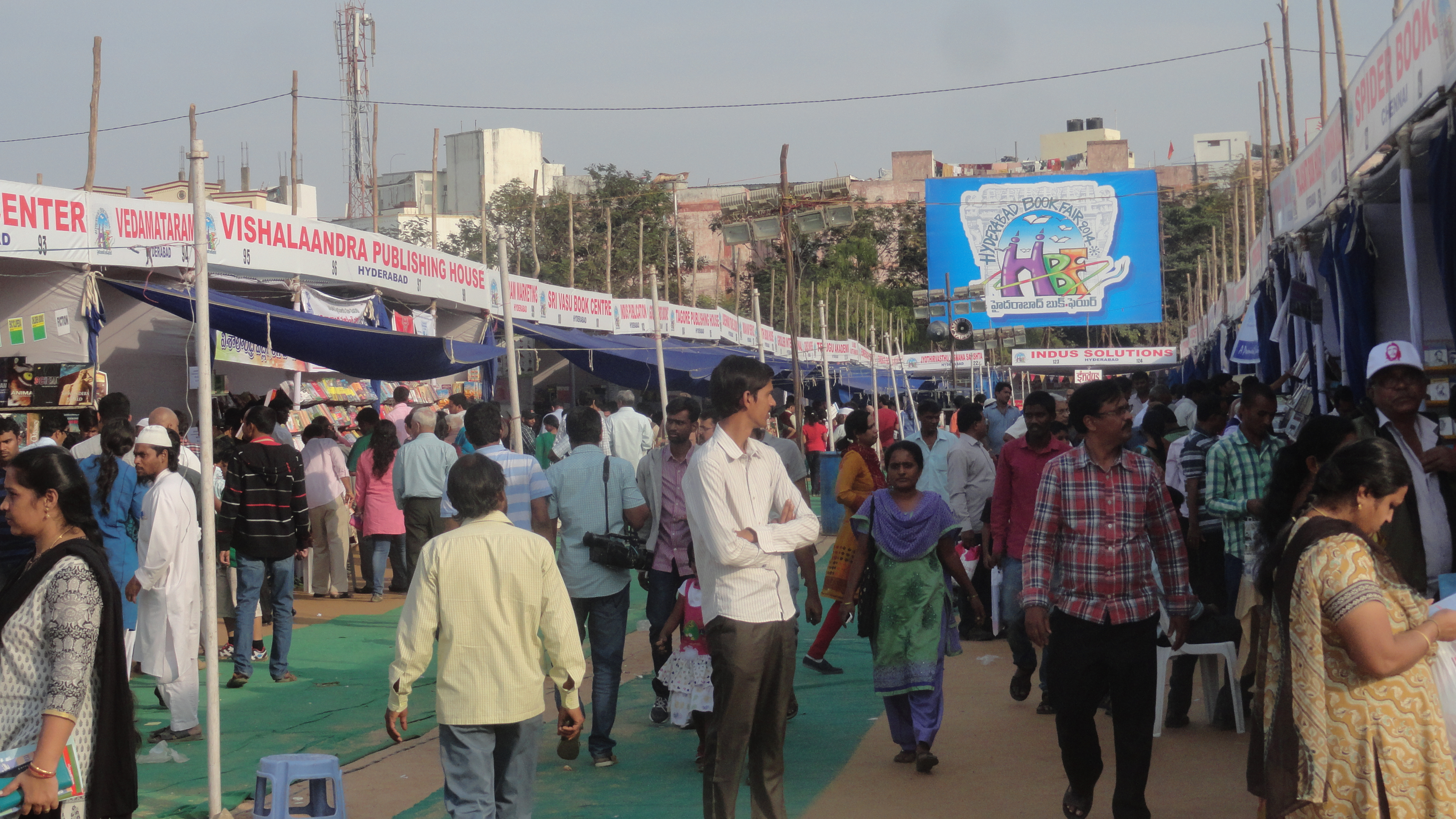 Devotional dance at HYD book fair